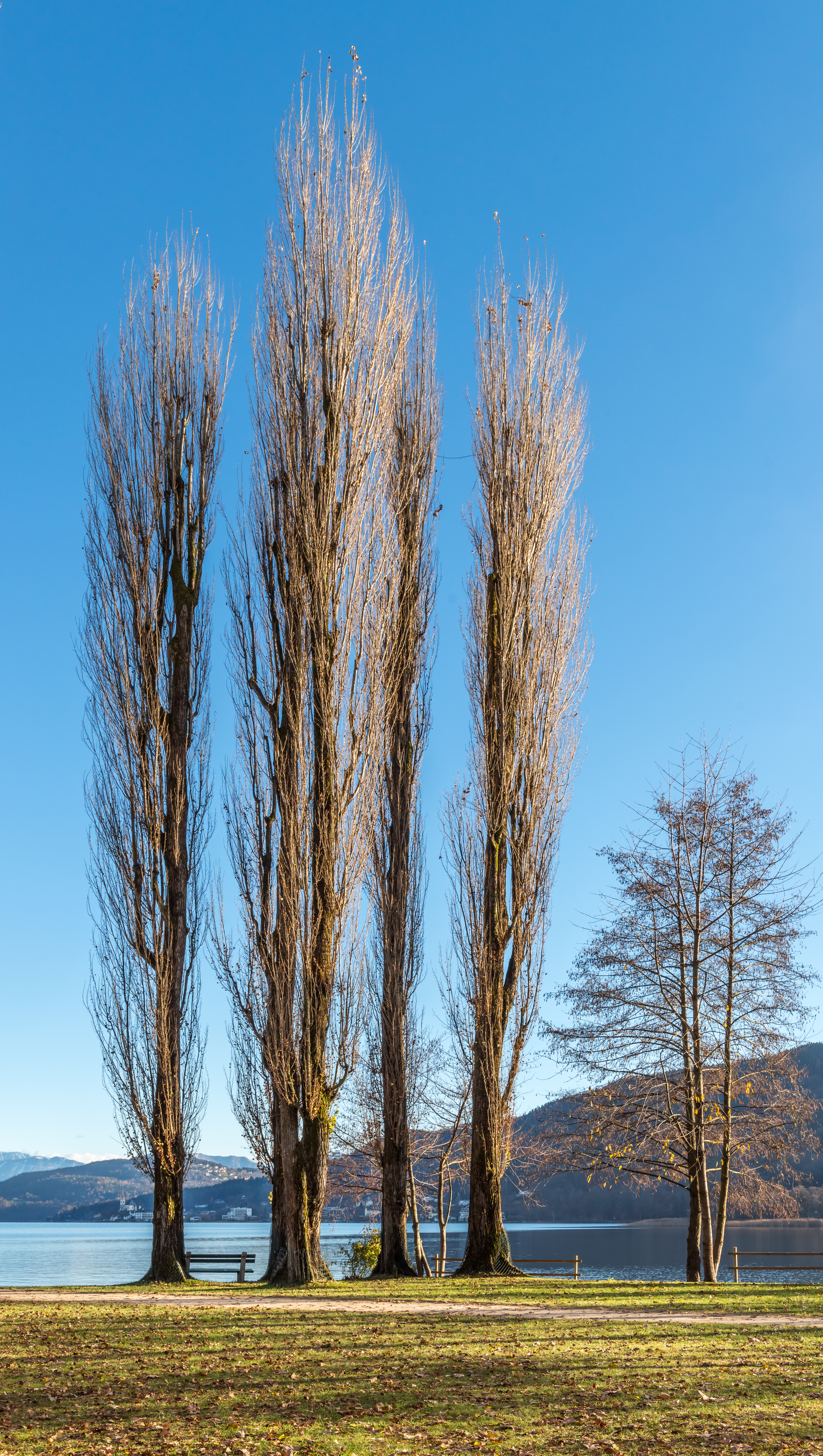 Group of poplar trees on the Blumeninsel ("Flower Island"), part of the Promenadenbad, municipality Pörtschach am Wörther See, district Klagenfurt Land, Carinthia, Austria, EU